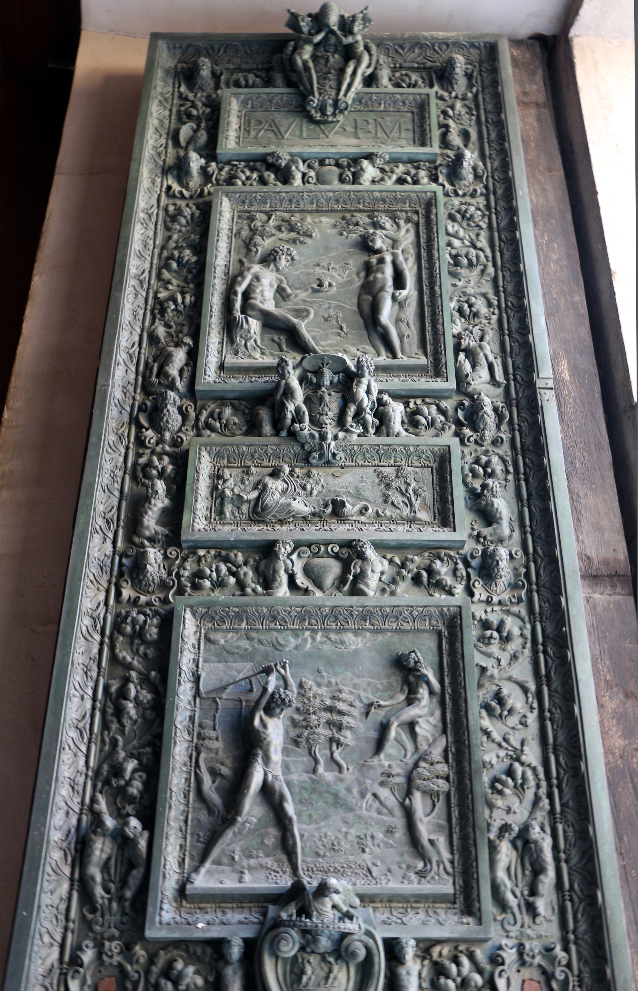 Santuario della Santa Casa (Loreto) - Bronze doors